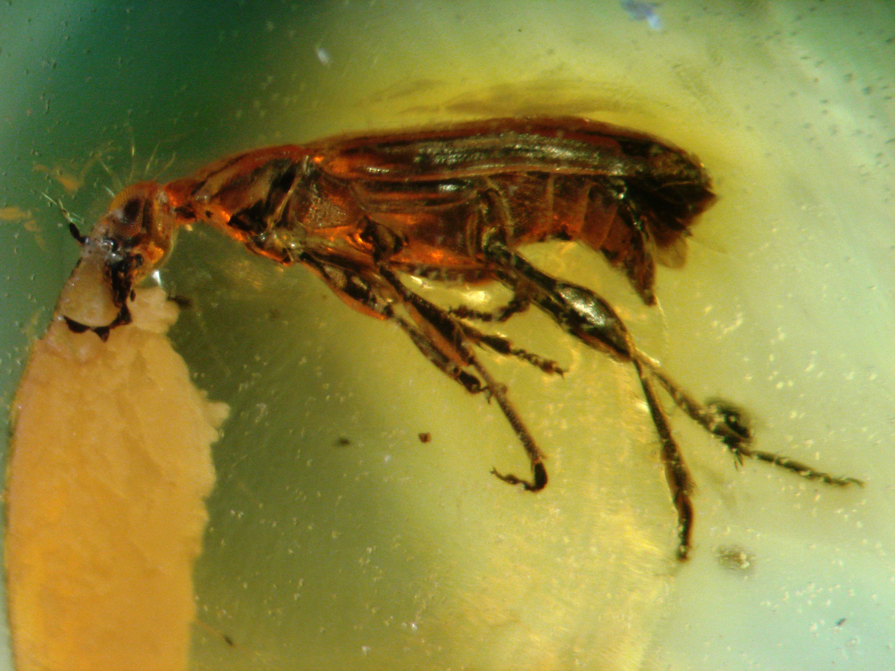 Baltic amber inclusions - 50 million years old - Coleoptera, Scraptiidae, ...? Picture "Baltic amber Coleoptera Scraptiidae" show the other side Picture "Baltic amber Coleoptera Scraptiidae 2" show a close-up on head